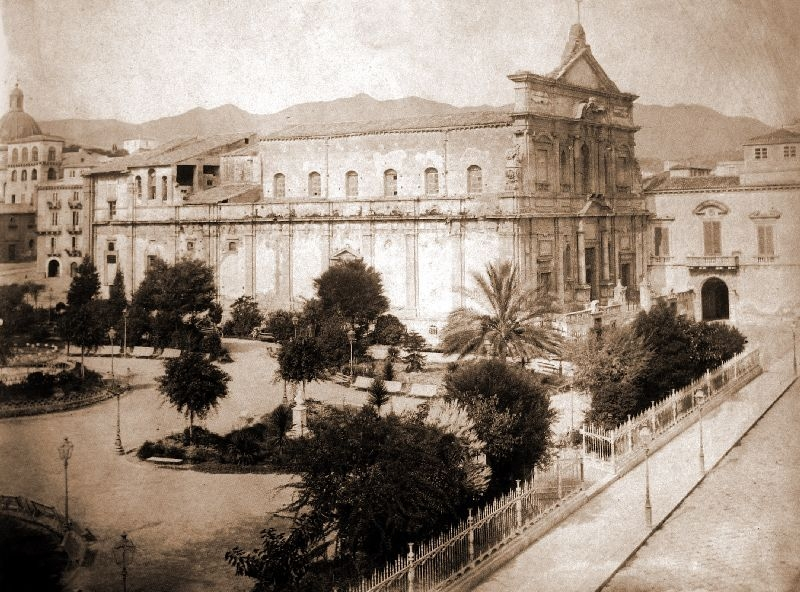 Church Messina